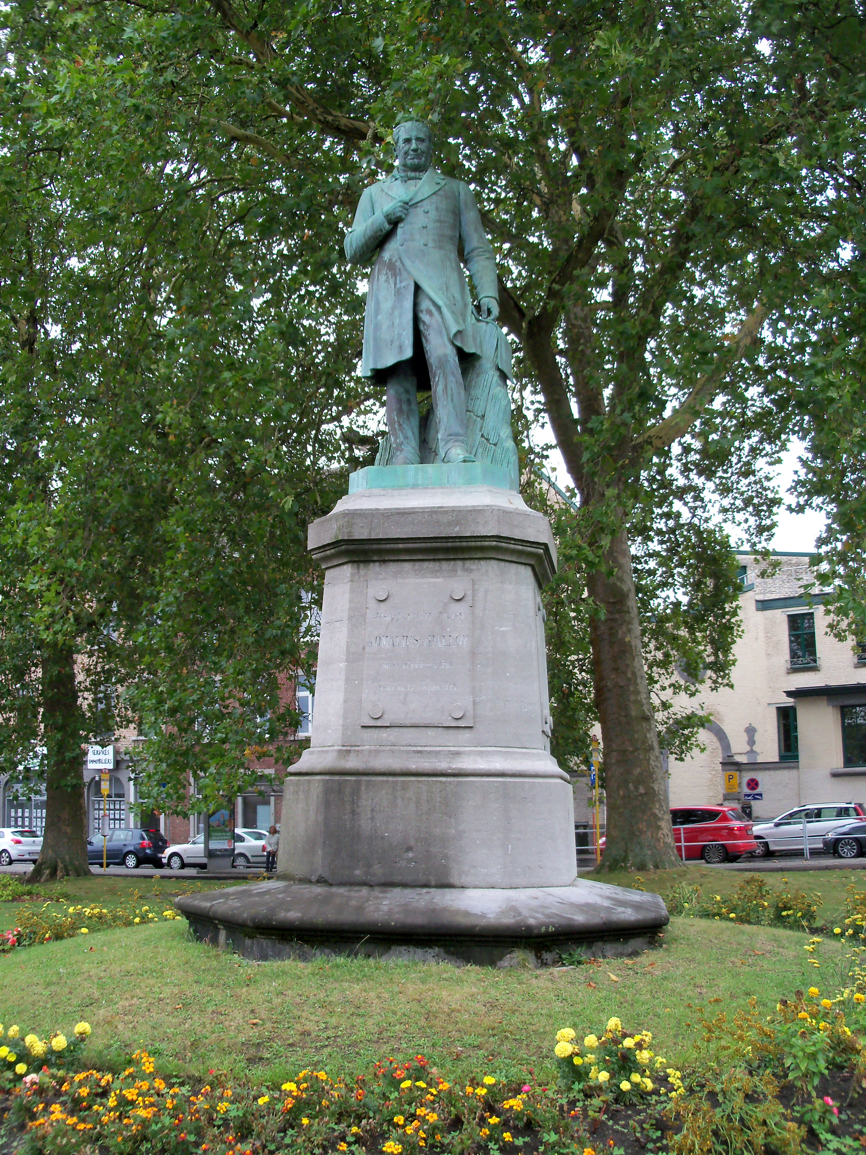 Jean-Baptiste-Julien d'Omalius d'Halloy. Statue in Namur, Belgium.